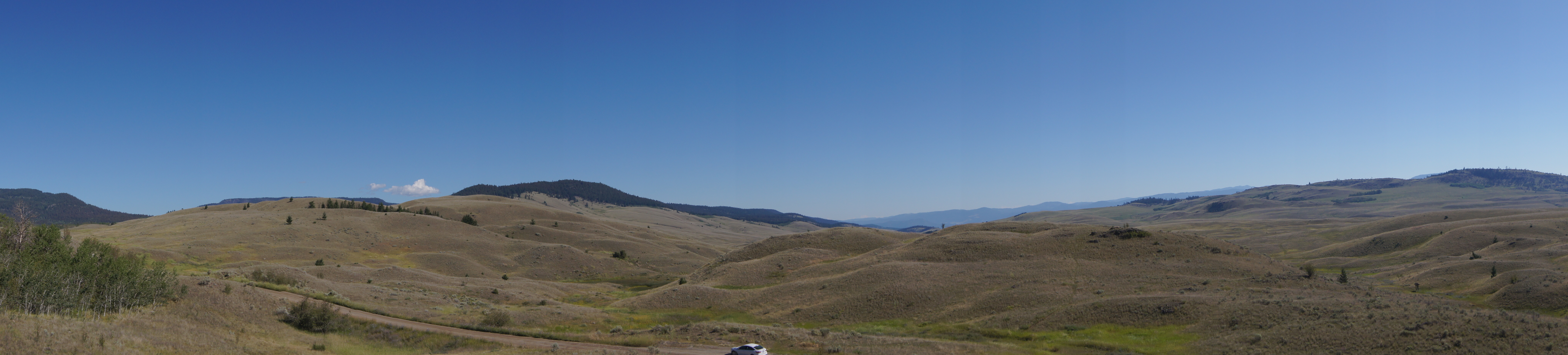 A panorama of the Lac du Bois Grasslands Protected Area north of Kamloops, British Columbia.